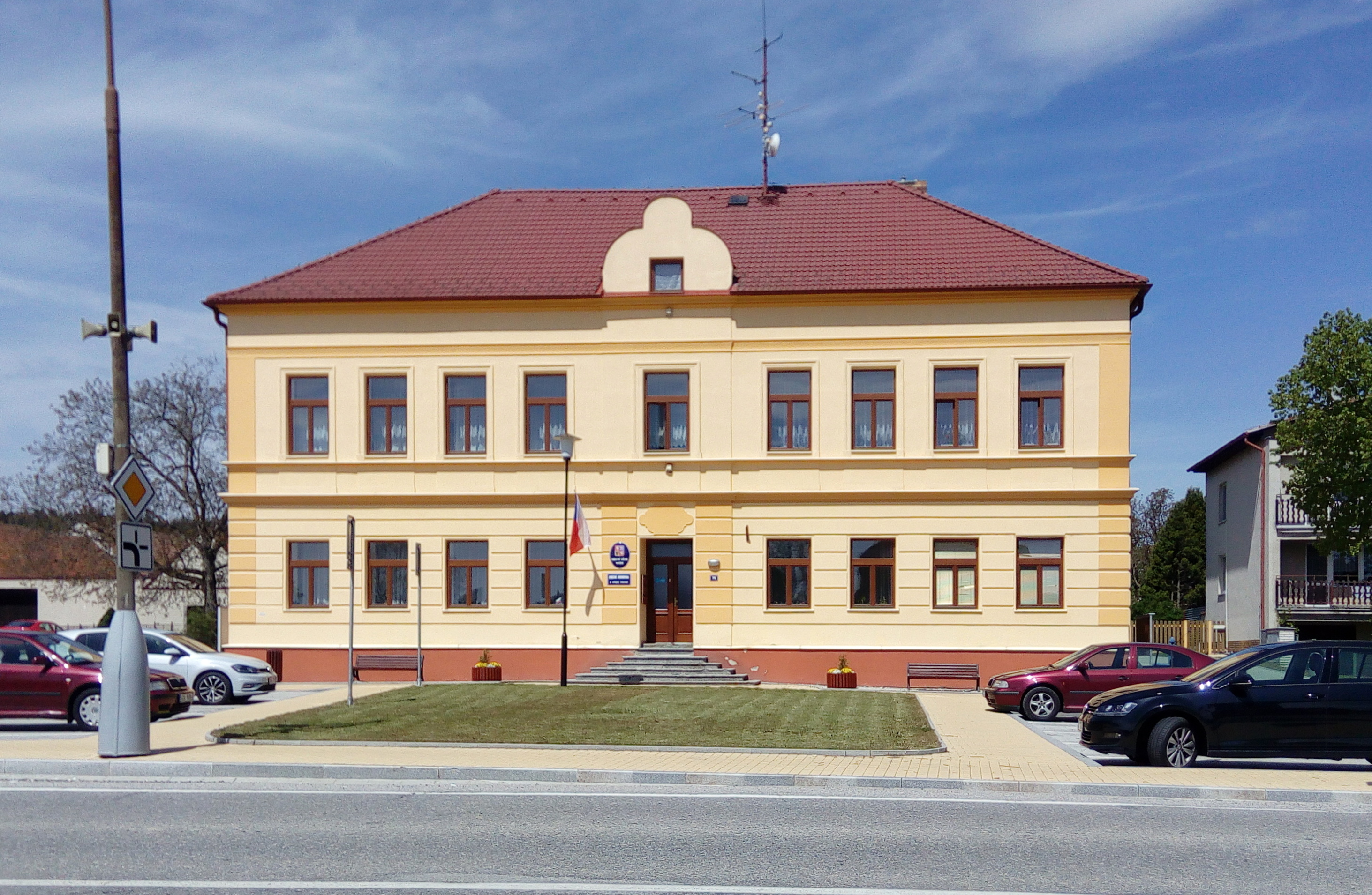 Building No 75 in the village of Vitín, České Budějovice District, South Bohemian Region, Czech Republic, a former school.